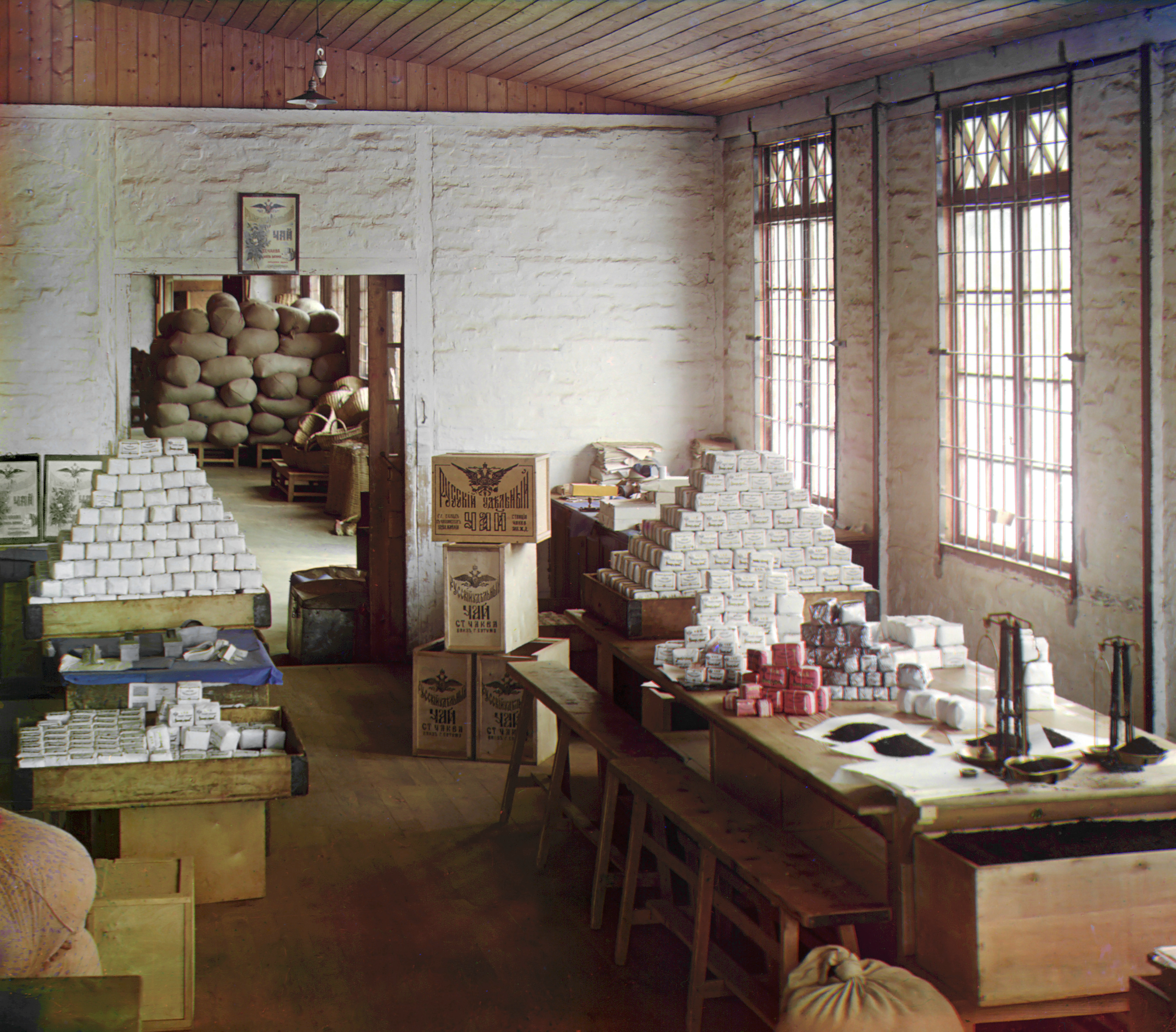 Tea Weighing Station located at the Chakva tea farm and processing plant just north of Batumi, close to the Black Sea coast Georgia. The Chakva farm and plant was one of the major suppliers of tea to all parts of the Russian Empire. This is an early color photograph, created by Sergei Mikhailovich Prokudin-Gorskii as part of his work to document the Russian Empire from 1909 to 1915.